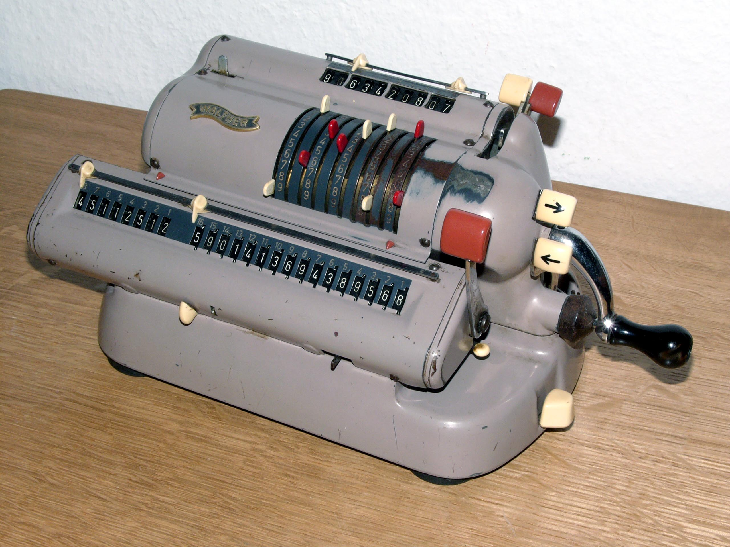 Calculator Walther WSR160 build 1960 bei Walther, Germany